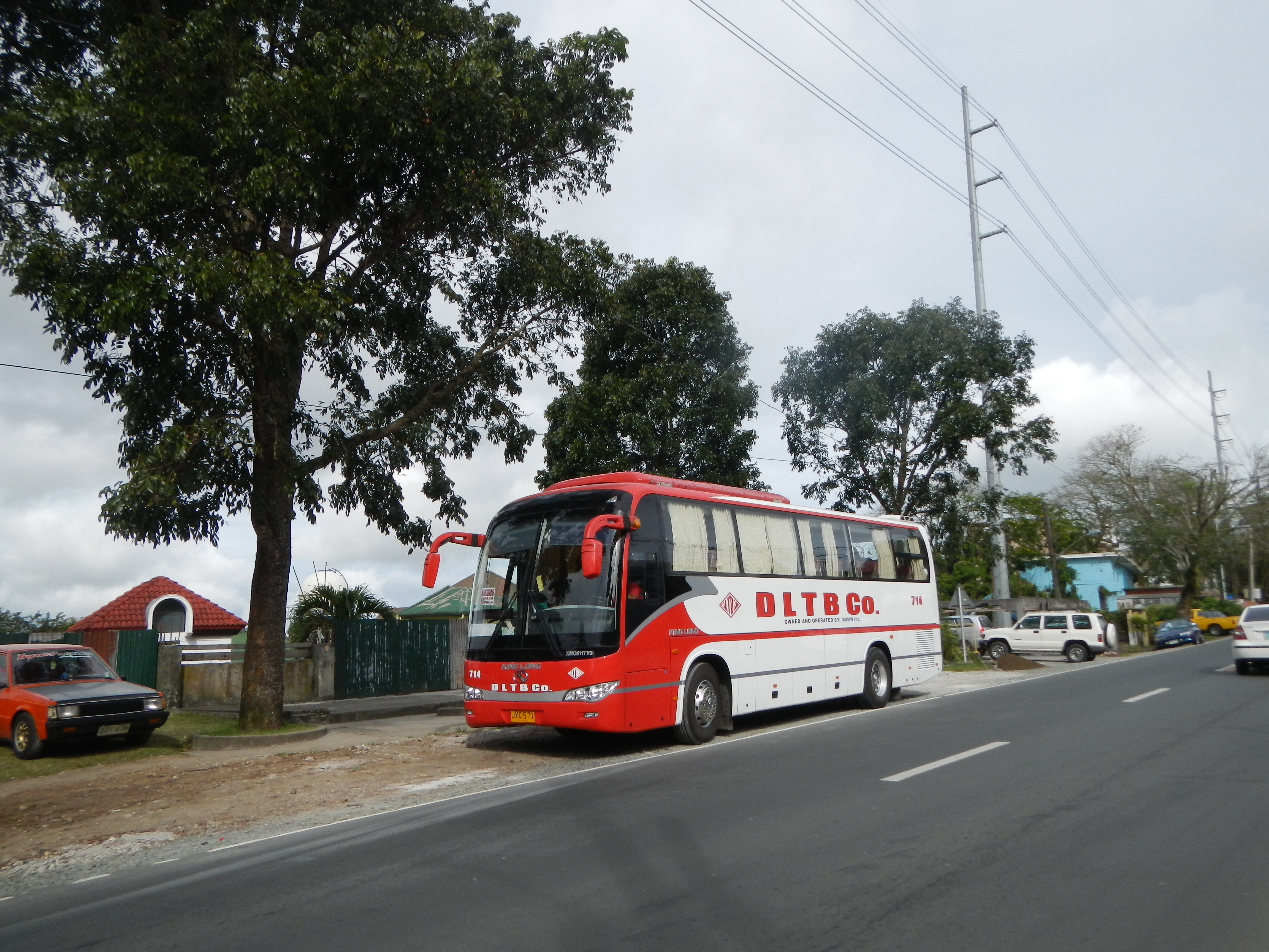 Upload Wizard photos of - Aguinaldo Highway[1], Maharlika West Tagaytay [2], with a DLTBCo bus parking on its usual bus stop.